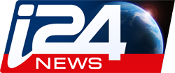 Official logo of the new international news channel "i24News"